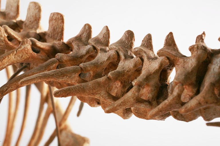 A Psittacosaurus skeleton cast in the permanent collection of The Children’s Museum of Indianapolis.